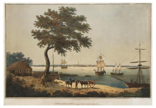 Joseph Wood. Philadelphia from Cooper's Ferry